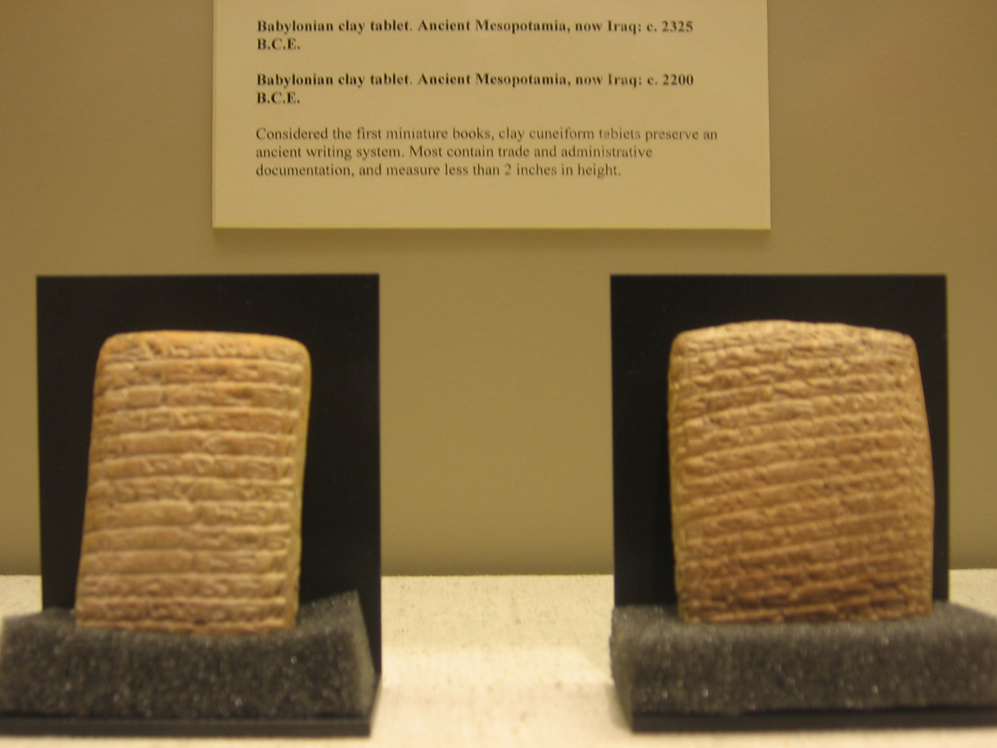 Miniature clay tablets from Babylon, considered the first Miniature book ever made.